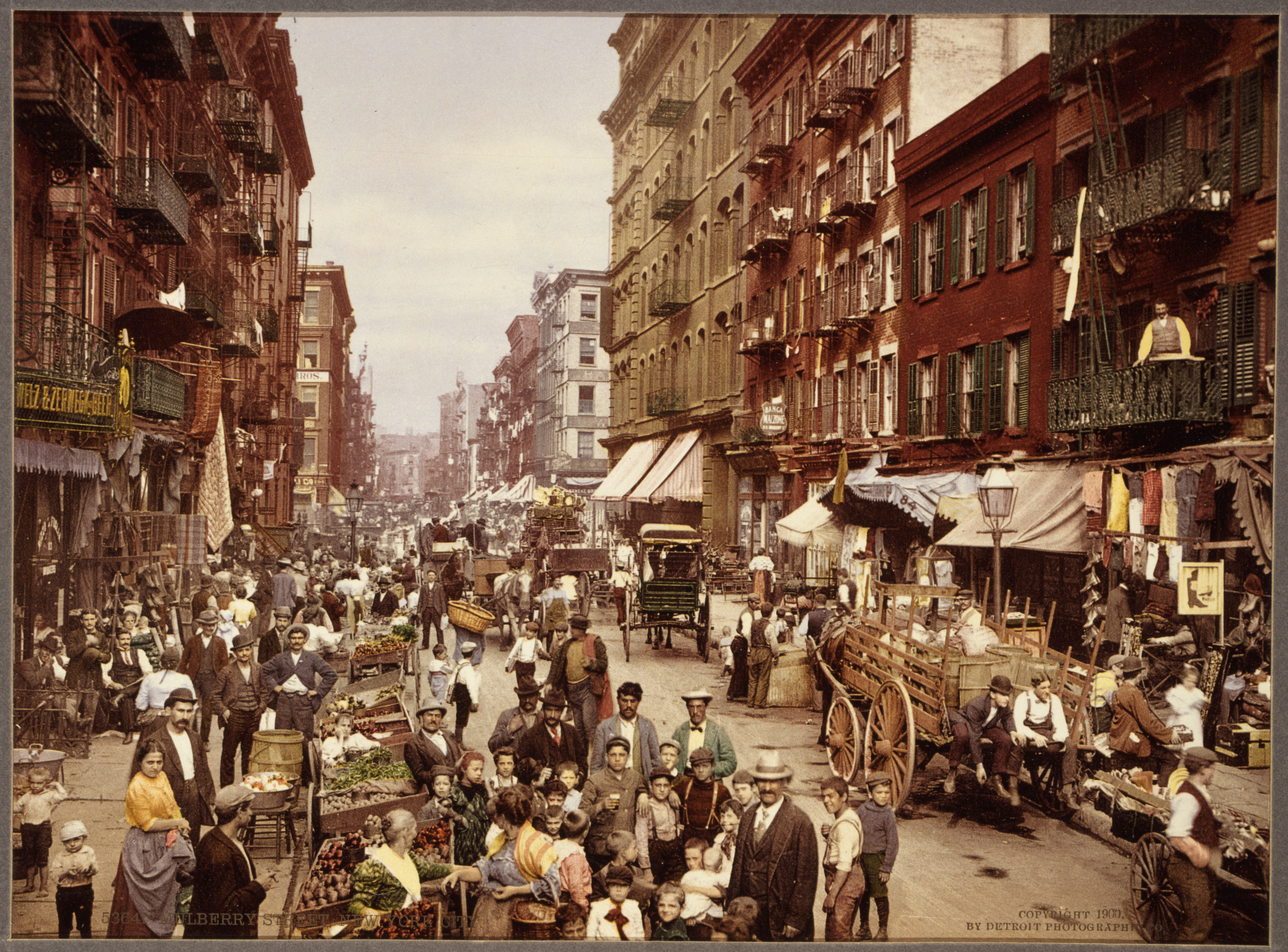 Mulberry Street, New York City. This image belongs to the Category:Photochrom pictures in their original state. This is an unprocessed image. Its purpose is to show the properties of a photochrom print. Please do not modify this image. Modifications will be reverted.